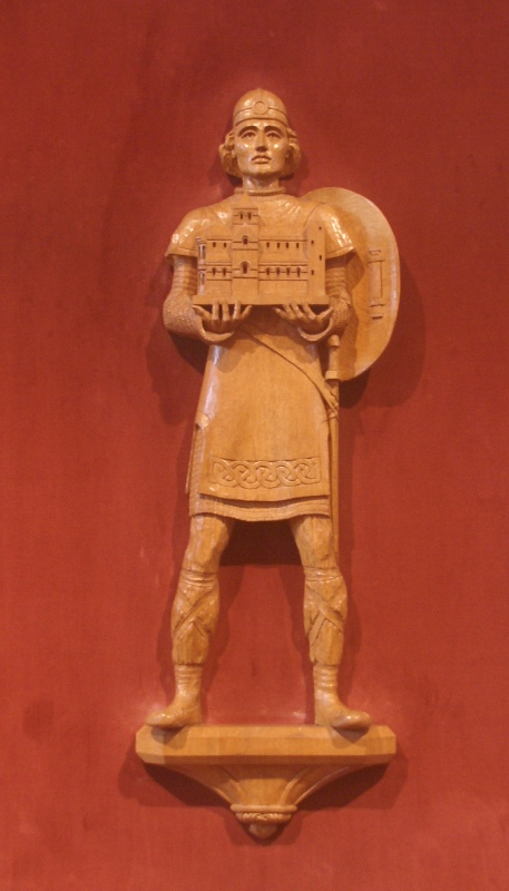 St Magnus Cathedral, Kirkwall, Orkneys, Scotland - St Rognvald, earl of Orkney